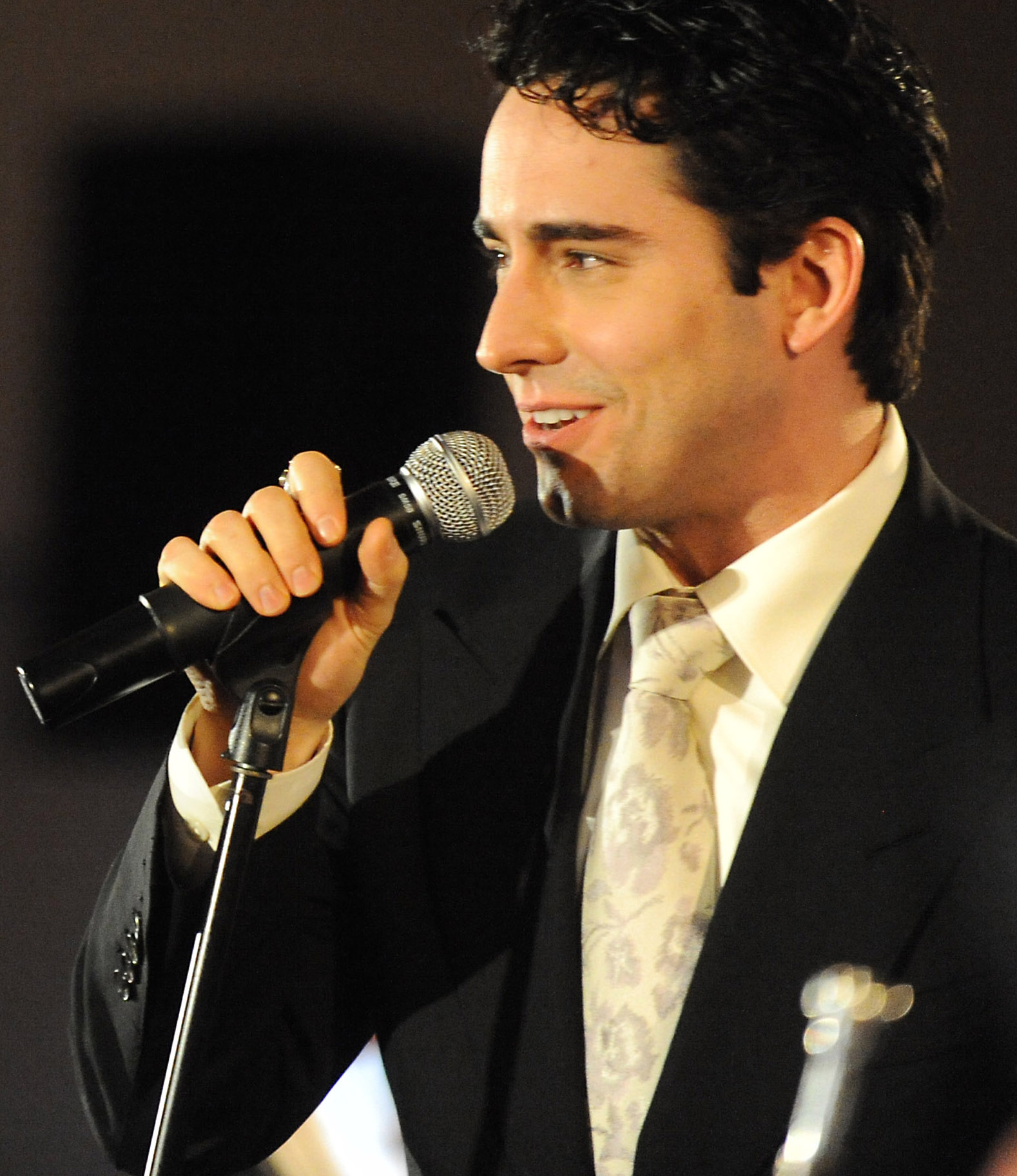 Tony Award-winning entertainer John Lloyd Young serenades the crowd at the USO of Metropolitan Washington's 31st Annual Awards Dinner March 14, 2013, in Arlington, VA. Young sang a selection of four songs from the 1960s to the crowd made up of active-duty military members, veterans, entertainers, and military supporters. DoD photo by Air Force Master Sgt. Chuck Marsh/Released.